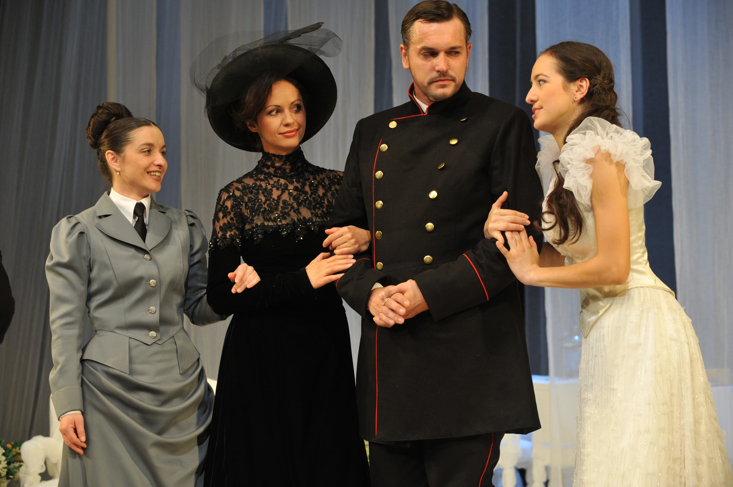 The theatre performance of Městské divadlo Brno Tři sestry (Three sisters) - from the left: Markéta Sedláčková, Ivana Vaňková, Petr Štěpán, Svetlana Janotová